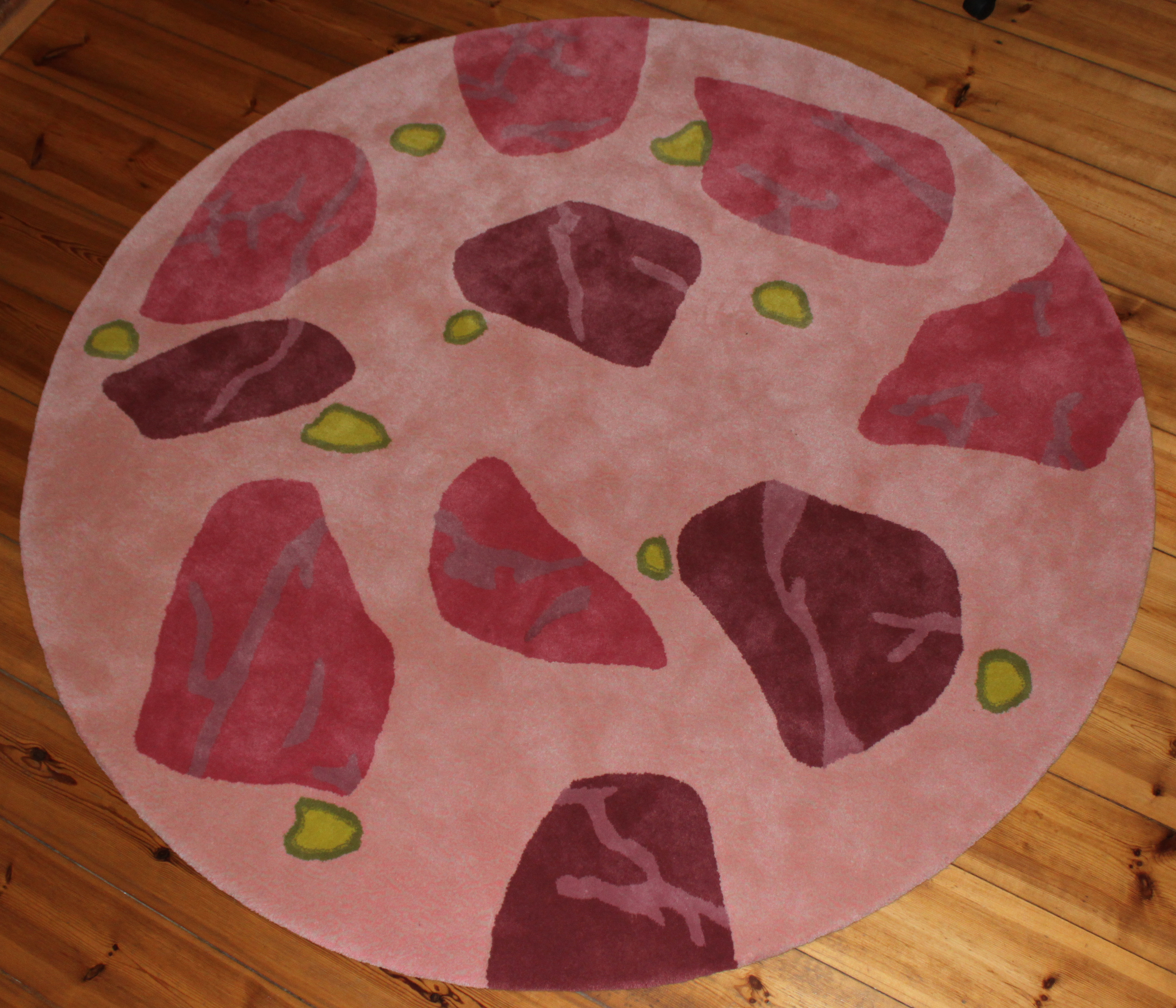 Sausage Carpet